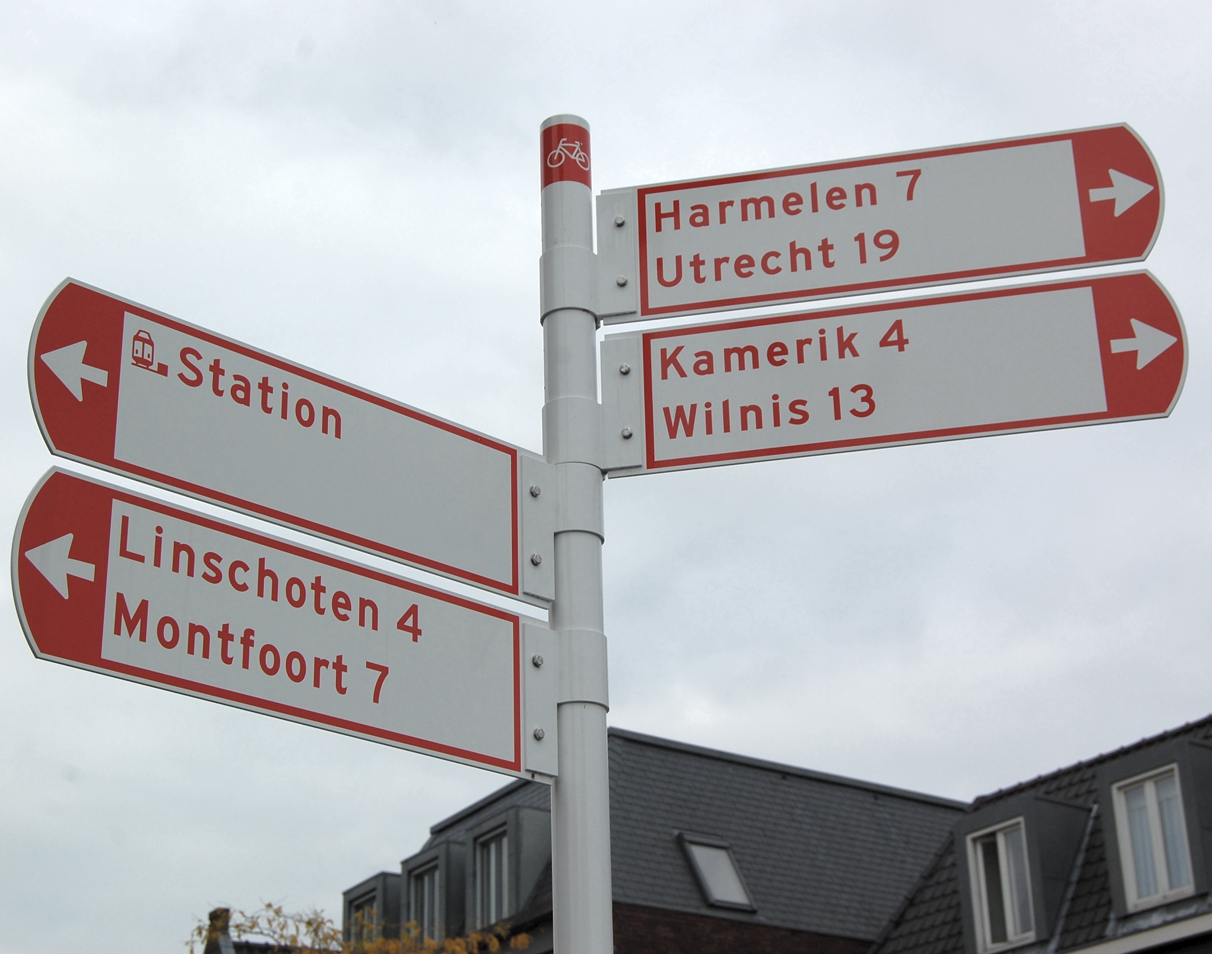 Cycling route signs in Woerden, The Netherlands, placed on this location in 2015